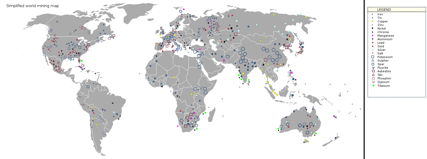 A schematic showing the locations of certain ores in the world. A specific focus has been put on metals, and construction materials. Natural resources that are used for energy (fossil oil, gas ...) can be found on another map. Aldough metals can still be won from regular mining, most metals, ... can now be much more economically won from landfills. This, as landfills require much less labour (less soil needs to be dug off and sieved). In addition, the use of a cradle-to-cradle material recovery can also save allot of labour and is therefore also more economically attractive. For some materials however, regular mining will still need to continue. In this case, it is best to choose ore sites that are located in biodiversity-poor regions (eg mountainous regions, regions outside of the tropical-subtropical zone). As the map is simplified, we can herefore study the maps from the USGS at ; the database is also usable with Google Earth, Finally note that on the map, the markers may vary in size, however this doesn't relate to the size of the mineral/materials stores, this is simply an incorrection due to the resizing. The map was made using data from the book "Future Energy and Resources" by Robin Kerrod and "Working with the oceans" by Lawrence Williams and Alan Collinson